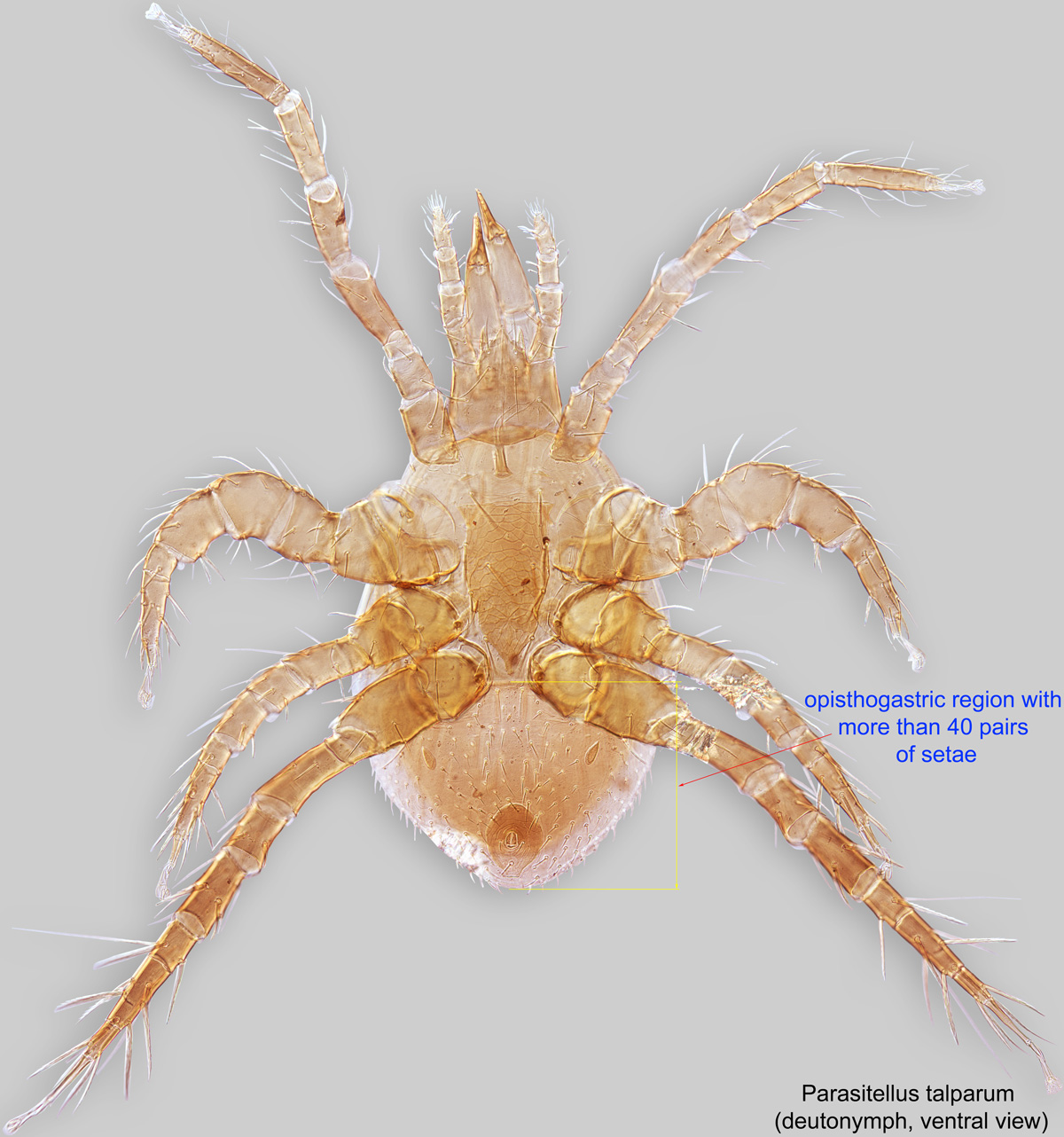 Bee mites